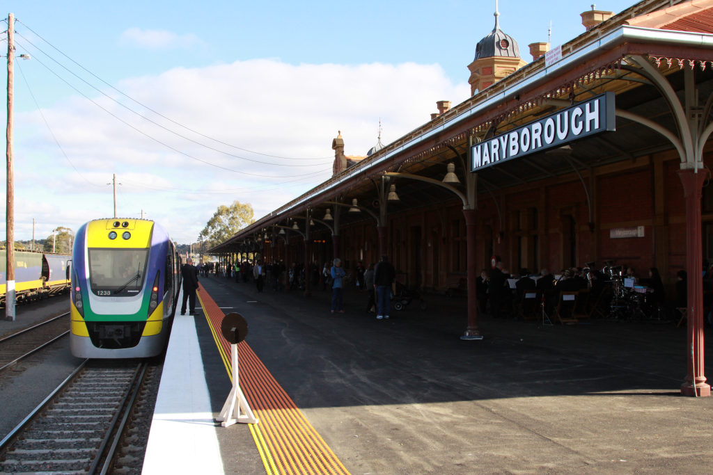 VLocity train at Maryborough railway station